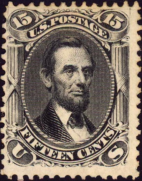 US Postage Issue of 1866: Abraham_Lincoln_1866_Issue-15c.jpg